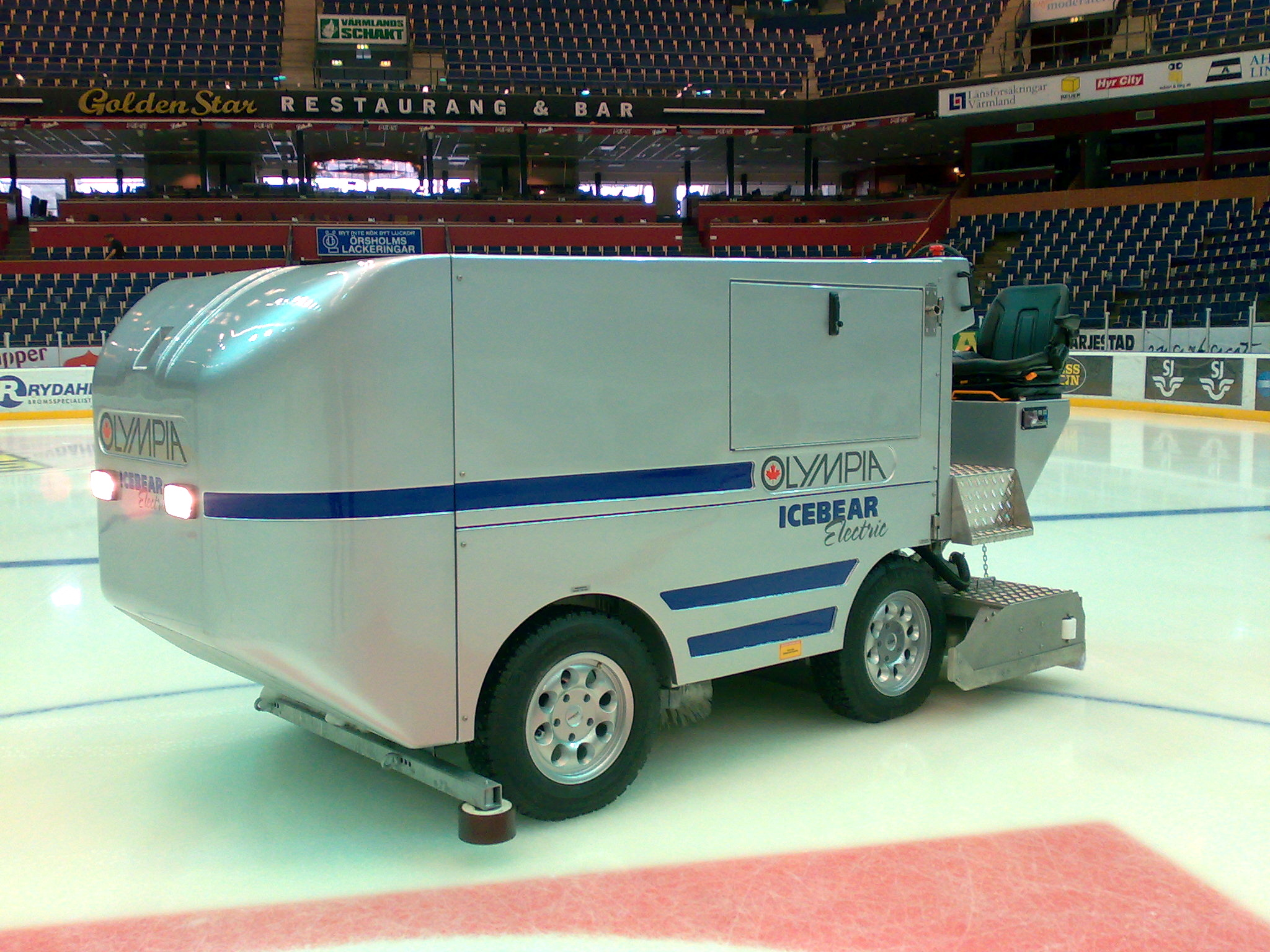 Icebear Electric